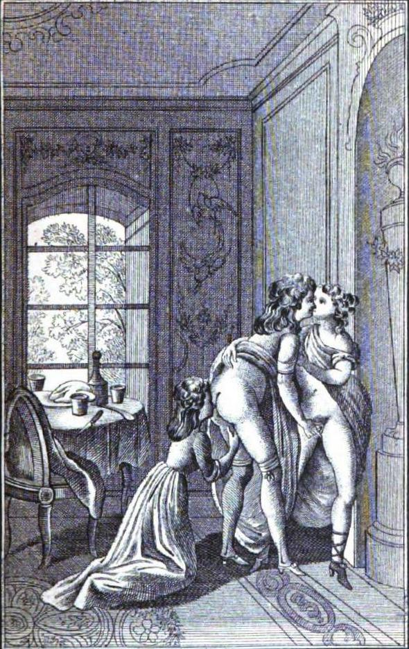 The novel Justine, or The Misfortunes of Virtue: Book adorned with a frontispiece and 40 carefully-engraved subjects. Volume 2.